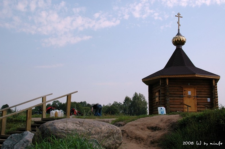 Russia. Tverskaya Oblast. Orshin Monastery. Chapel of John the Baptist near monastic spring